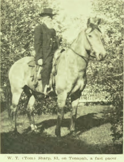 Tom Sharp, operated a trading post, founded the settlement of Malachite, and bred horses and cattle